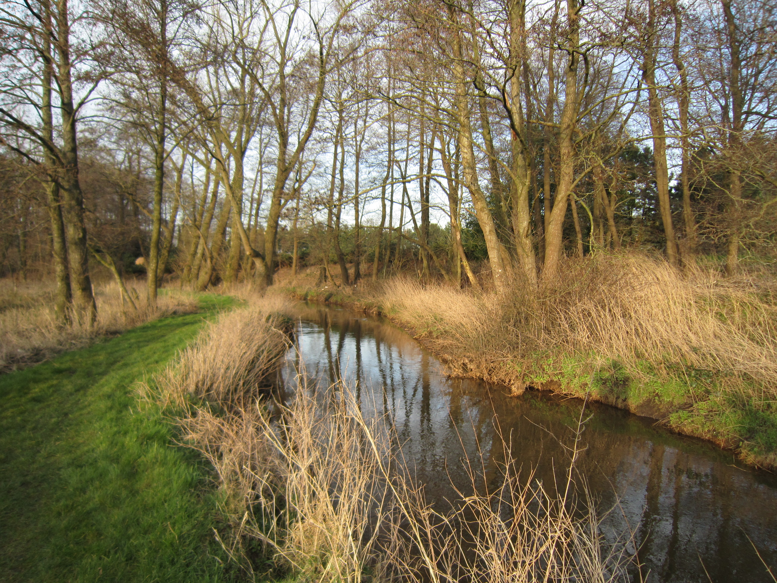 River Soeste near Stedingsmuehlen Manour, accompanied by the "Geestweg" (hiking-trail from Meppen to Bremen)